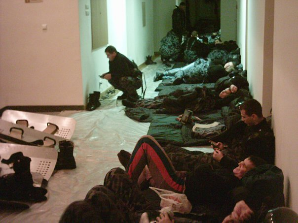 "Berkut" in building of the Cabinet of Ministers of Ukraine, 2004